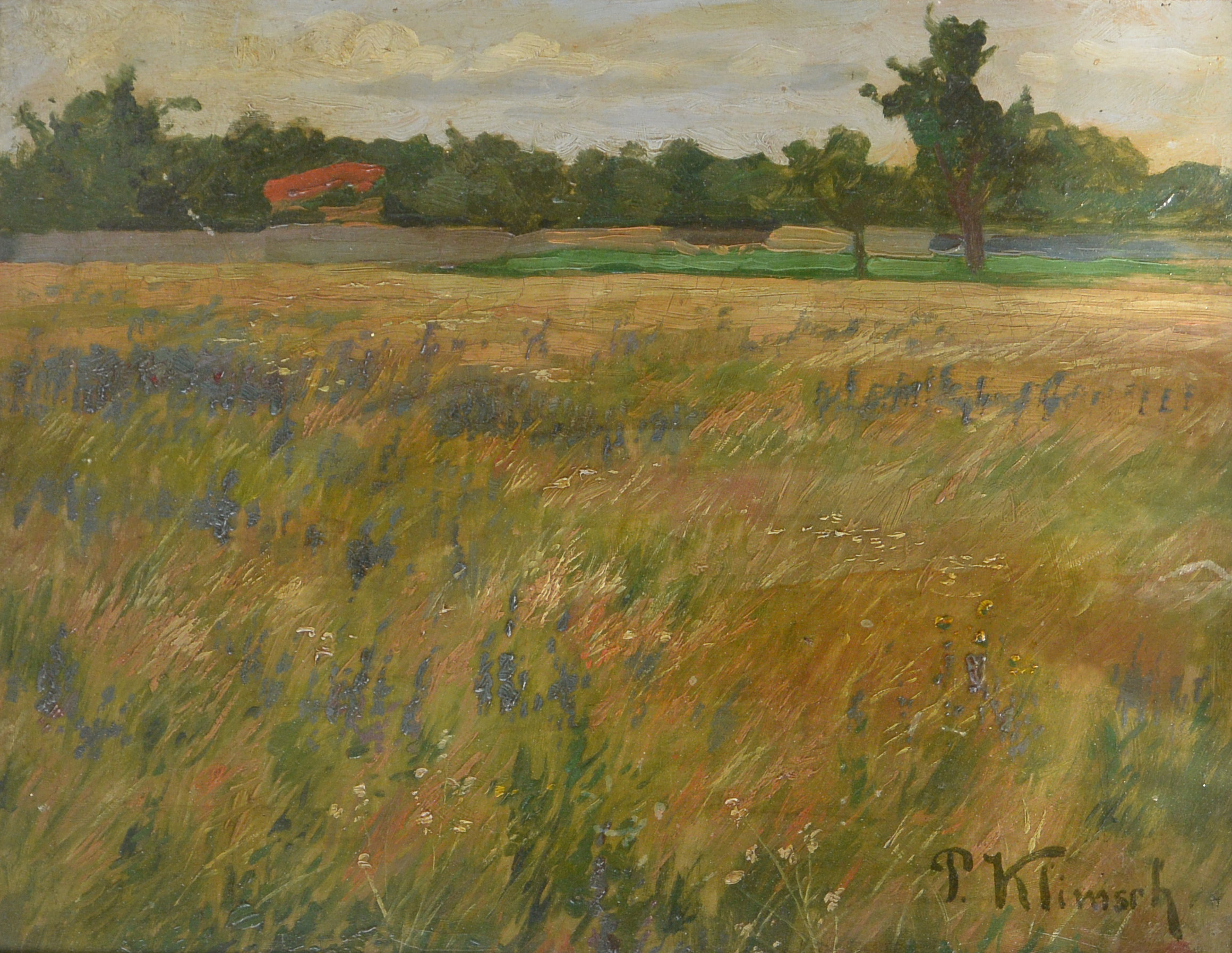 Taunuswiesen by Paul Klimsch